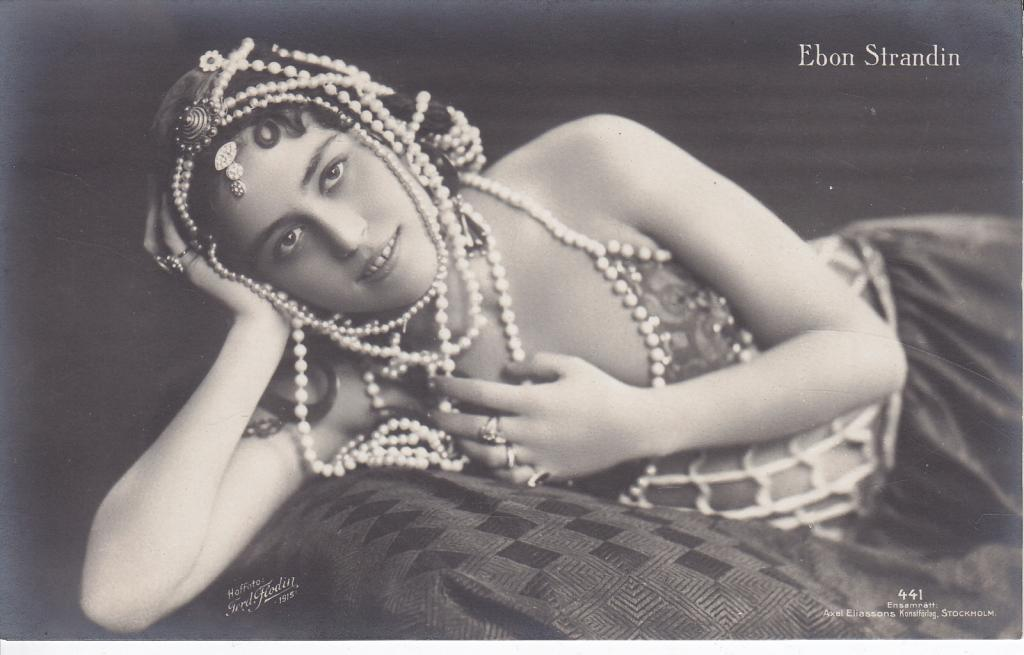 Ebon Strandin